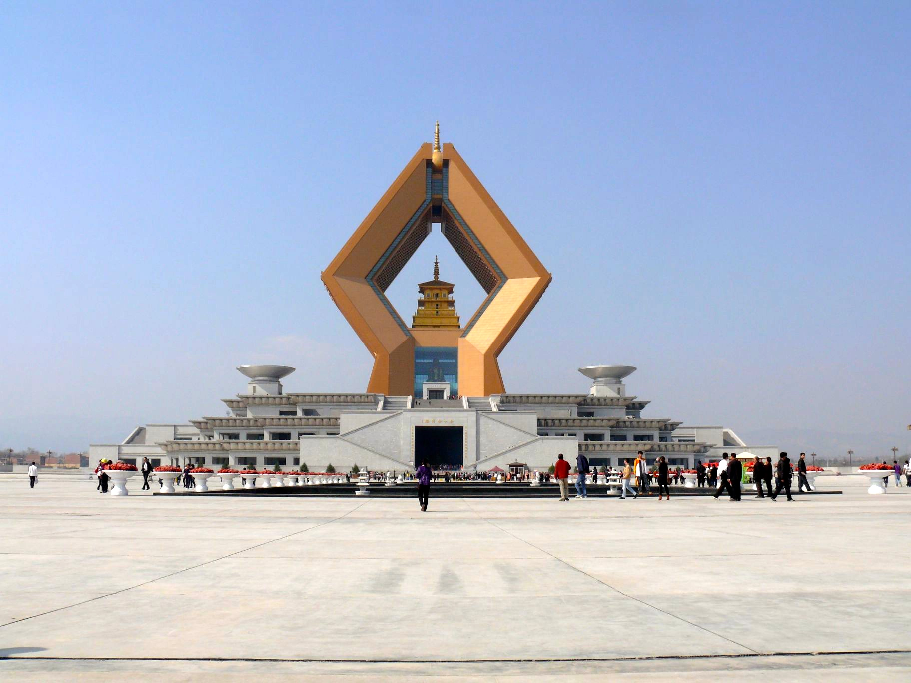 Late 20th century additions to Famen temple complex, in Shaanxi province (China)